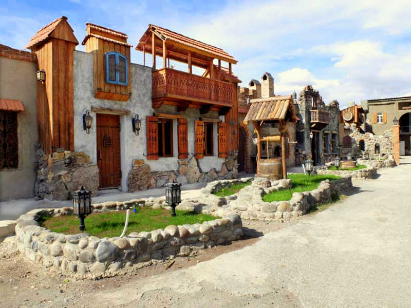 Voskevaz winery, Aragatsotn, Armenia.